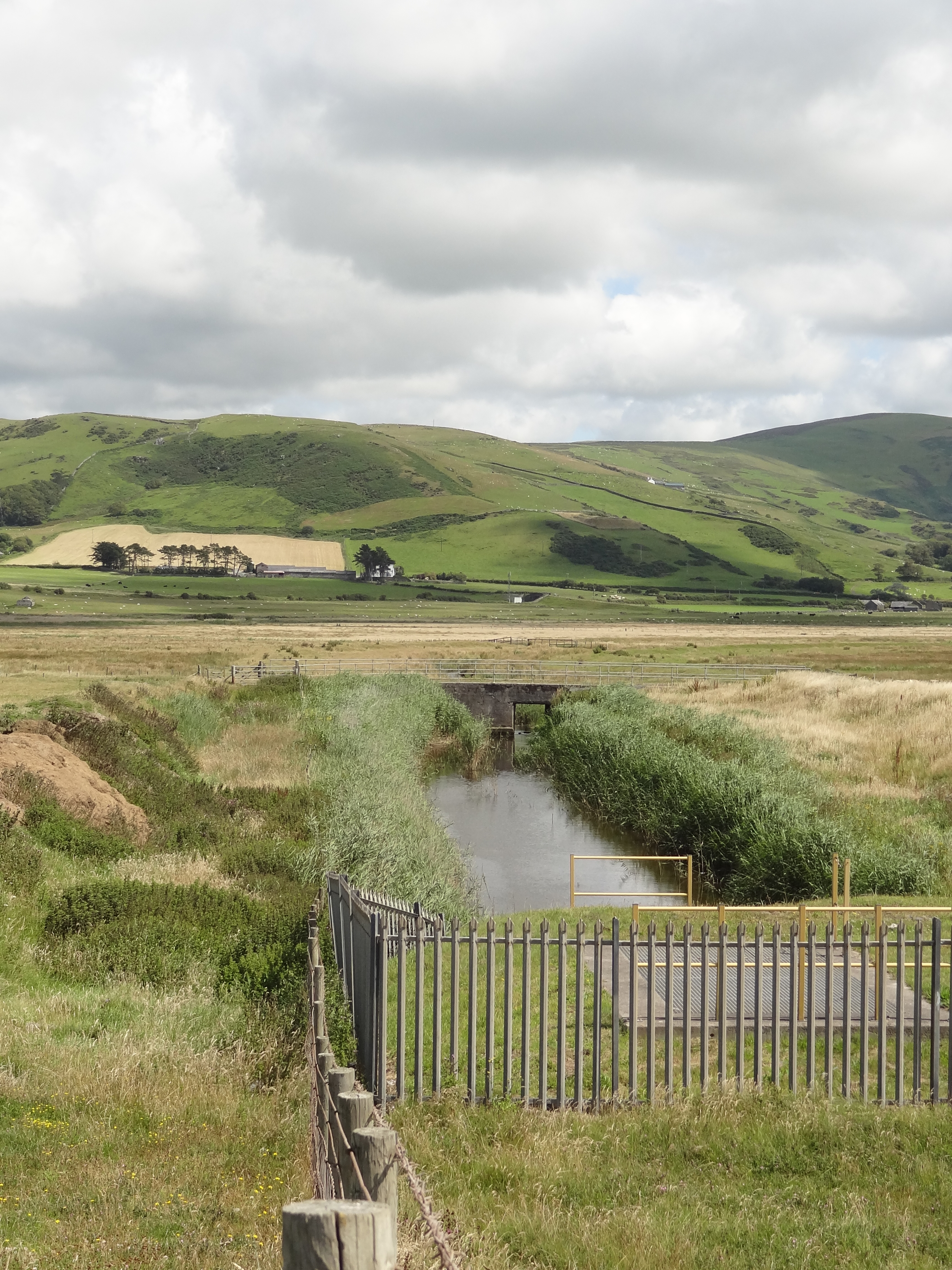 Mouth of the Dyffryn Gwyn river (today)